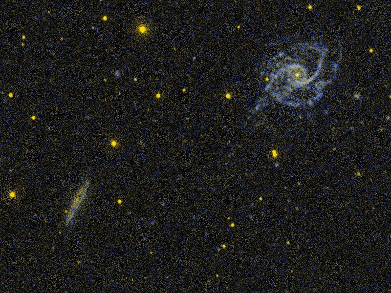 NGC 5905 (right), NGC 5908 (left) galaxies from GALEX